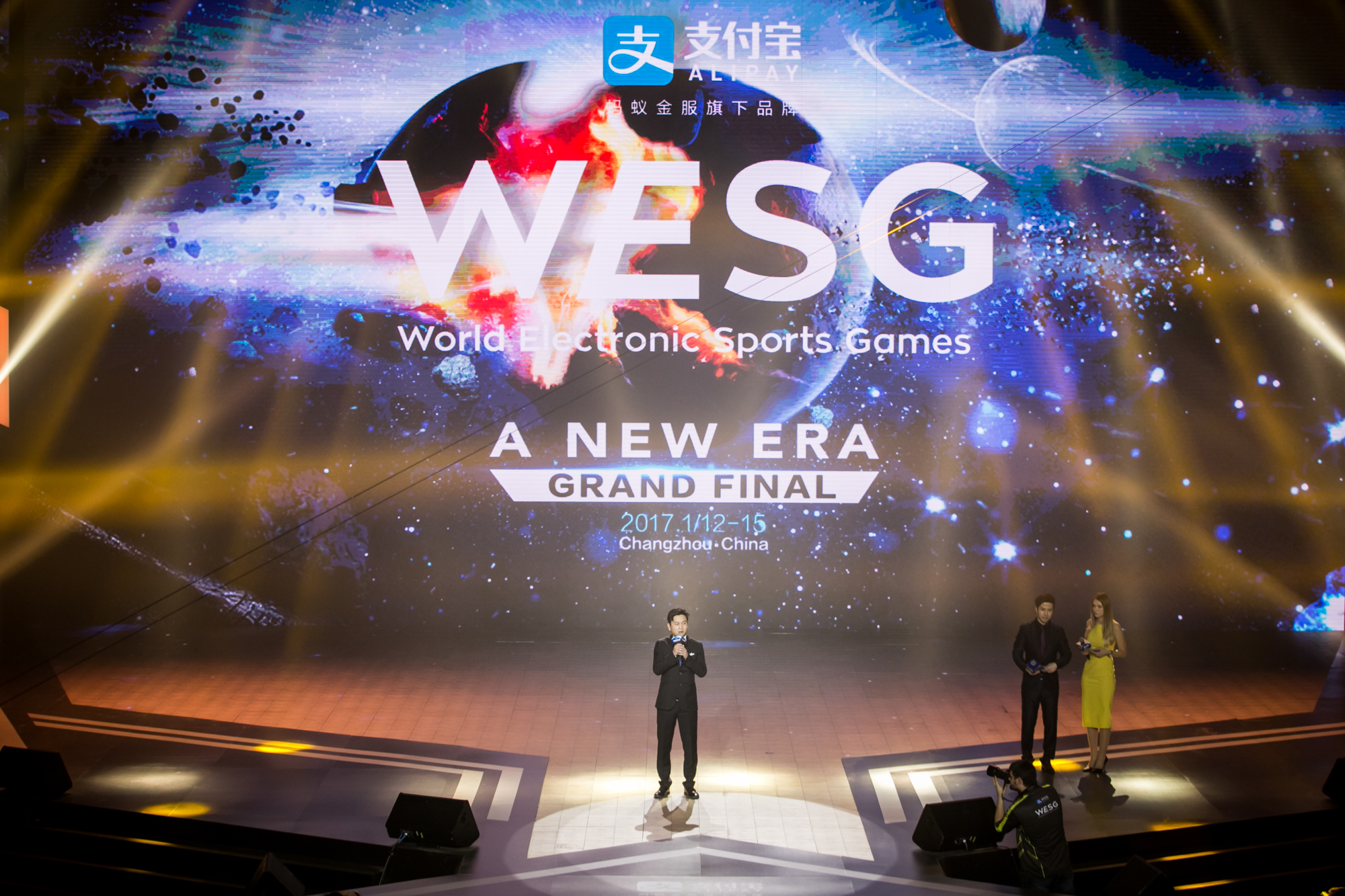 World Electronic Sports Games